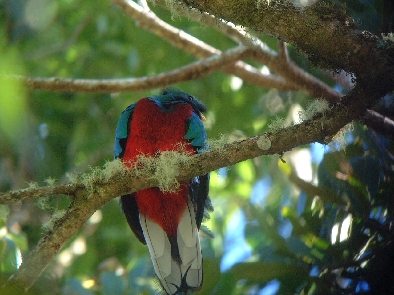 Resplendent Quetzal (Pharomachrus mocinno); male, Savegre, Costa Rica